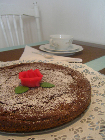 Description: Kladdkaka med garnityr av marsipan Author: Meloday (own work) Source URL: Date: 2006-08-17